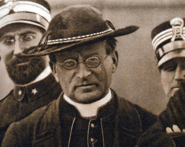 Achille Ratti as a cardinal and apostolic nuncio in Poland round 1920